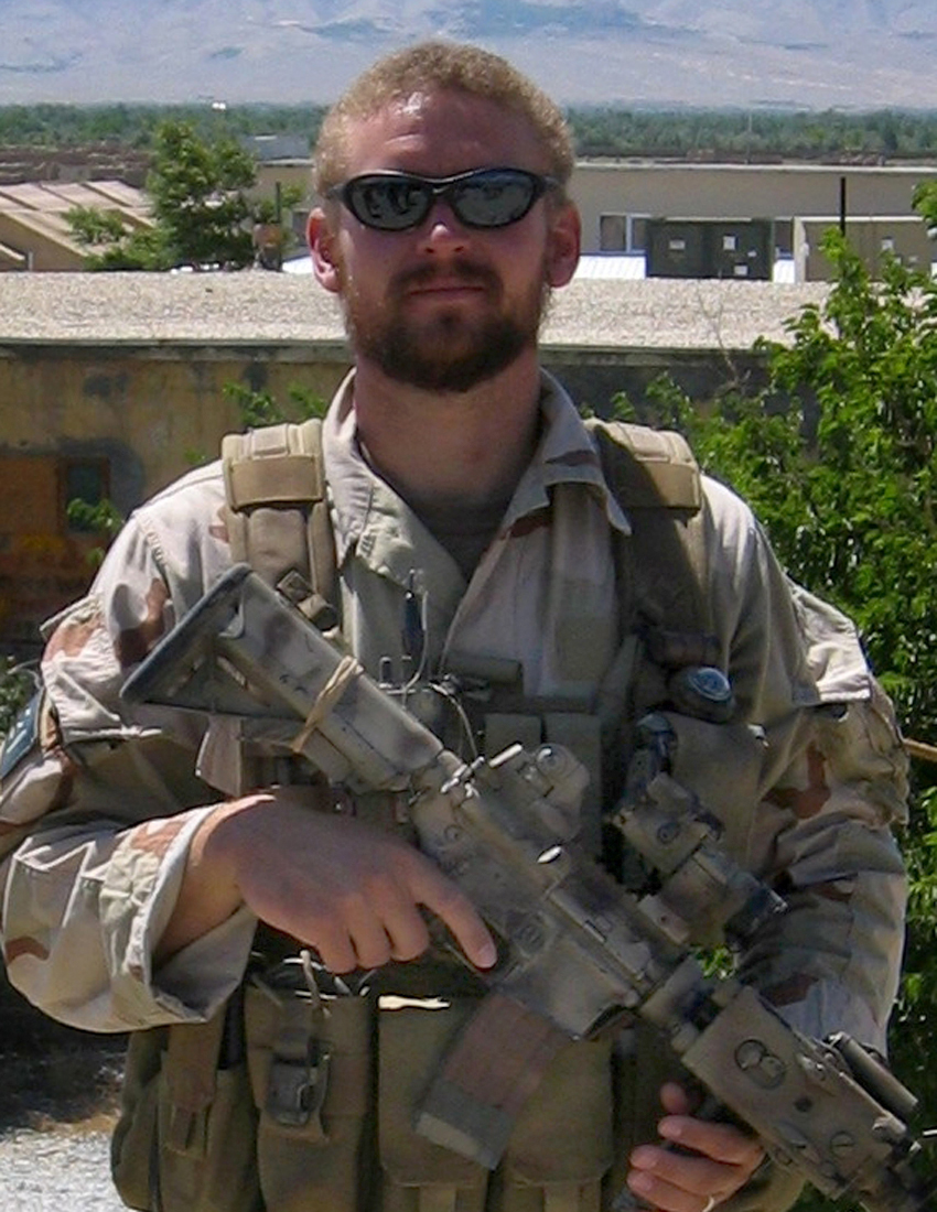 Navy File Photo of Navy SEAL (Sea, Air, Land) Sonar Technician Second Class Matthew G. Axelson, 29, from Cupertino, Calif., killed by enemy forces during a reconnaissance mission June 28, 2005. Secretary of the Navy Donald Winter will posthumously award the Navy Cross to Petty Officer Axelson during a ceremony at the U.S. Navy Memorial, Washington, D.C. Sept. 13. Axelson was part of a four-man team tasked with finding a key Taliban leader in the mountainous terrain near Asadabad, Afghanistan, when they came under fire from a much larger enemy force with superior tactical position. Mortally wounded, Axelson held his position, drawing fire so one of his teammates could escape. The Navy Cross is second in precedence only to the Medal of Honor, and is presented to Naval Forces in honor of extreme gallantry and life-risking action in the face of combat with an armed enemy force.